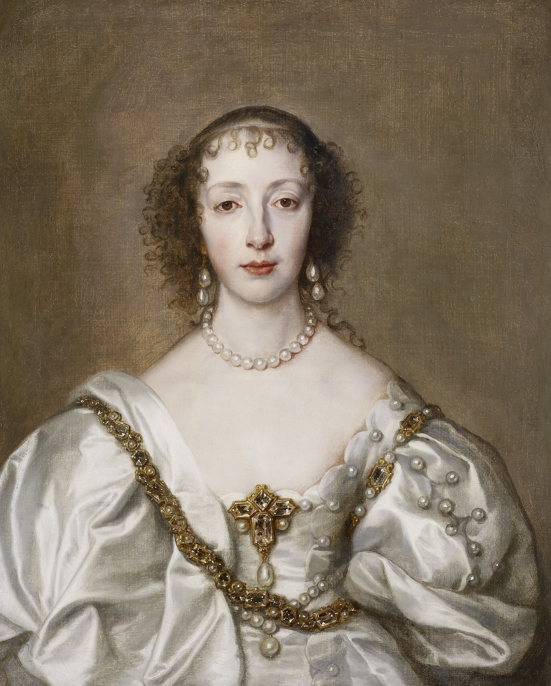 Frontal painting of Henrietta Maria, Queen of England.